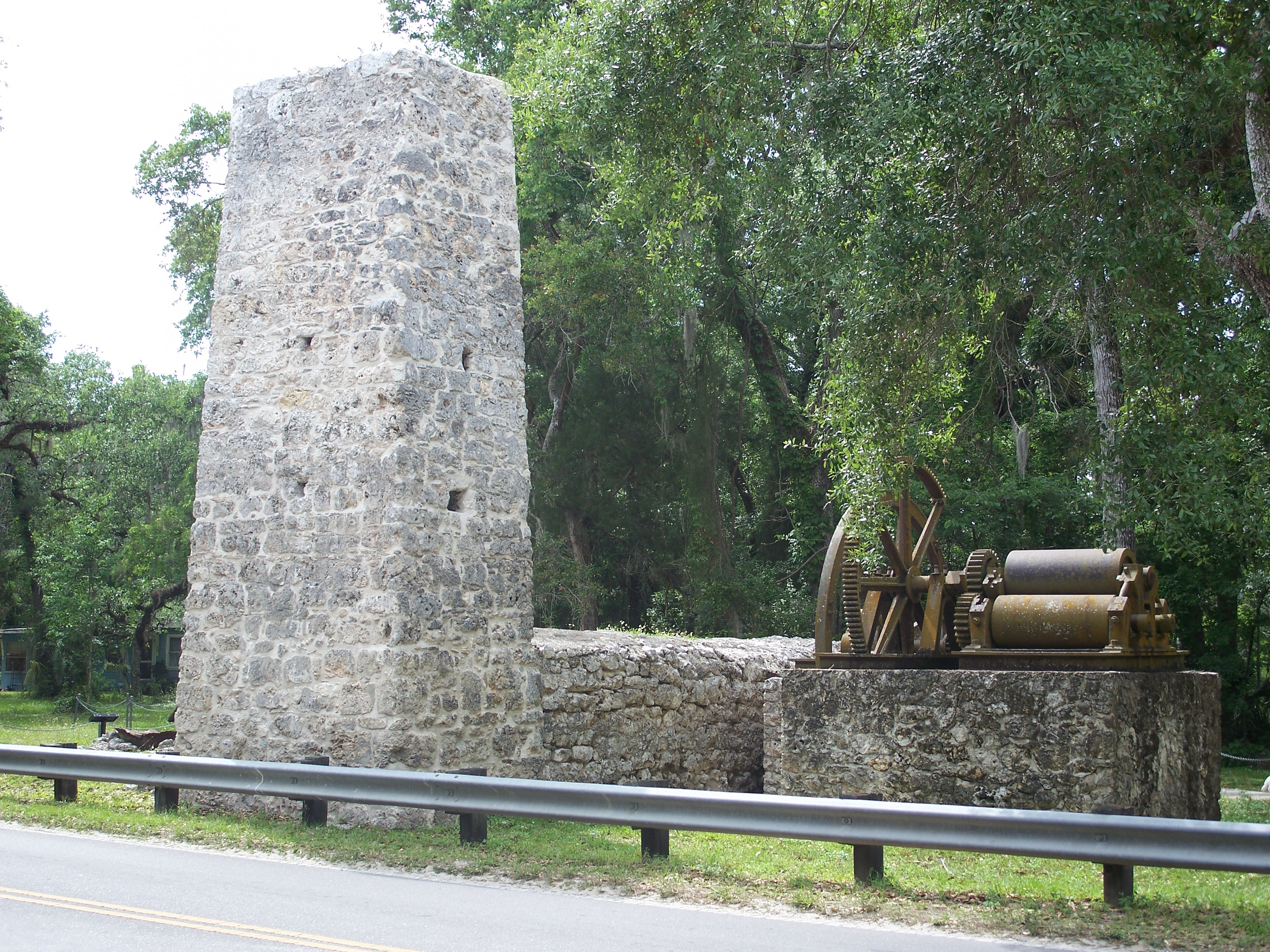 Yulee Sugar Mill Ruins in Homosassa, Florida. It is part of a Florida State Park, and on the National Register of Historic Places.